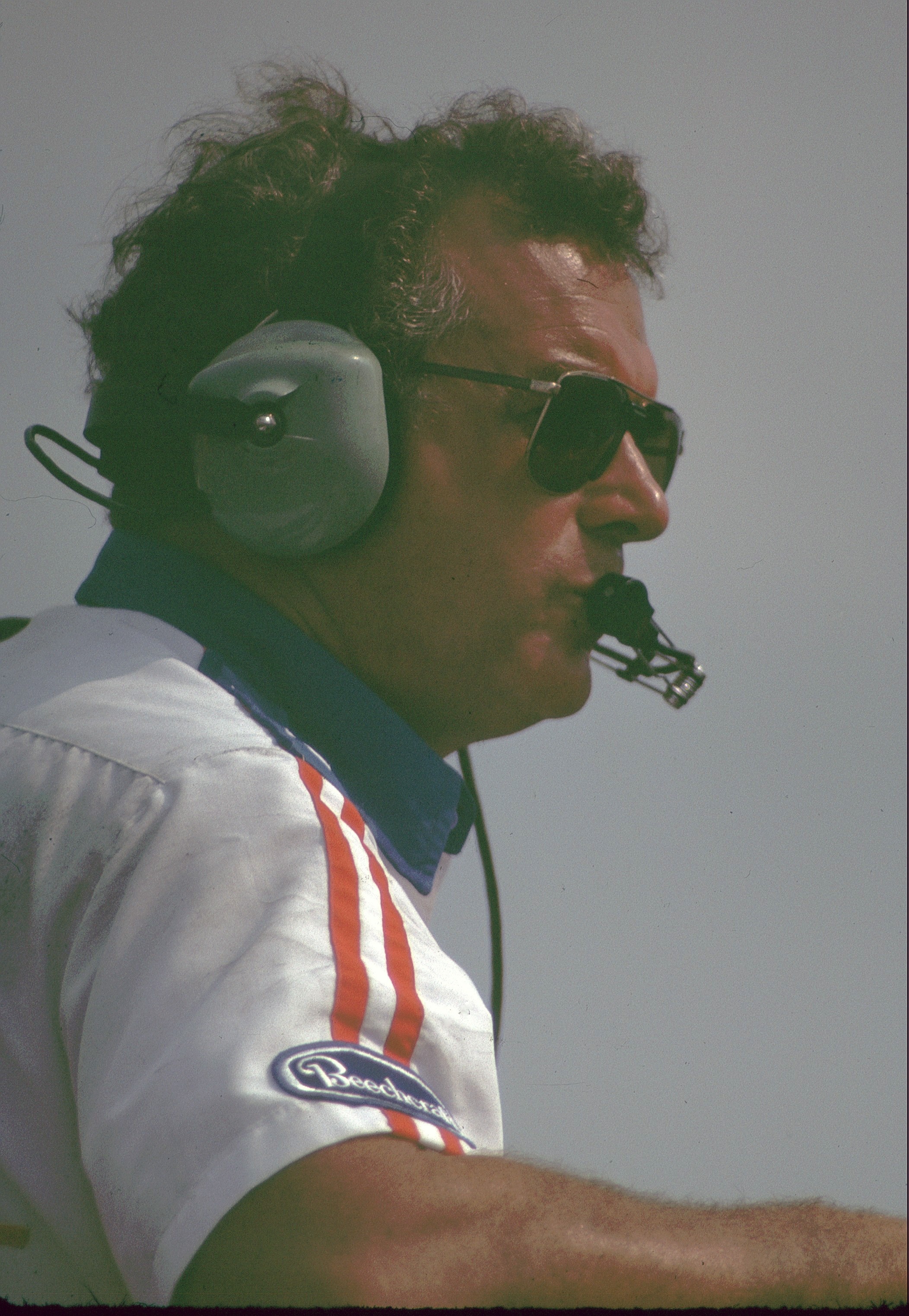 NASCAR championship crew chief Dale Inman. Photo by Ted Van Pelt